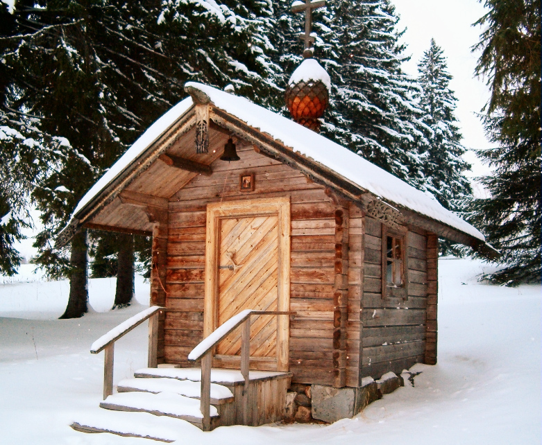 Chapel of Saint Nicholas in New Valamo (or New Valaam) monastery in Heinävesi, Finland